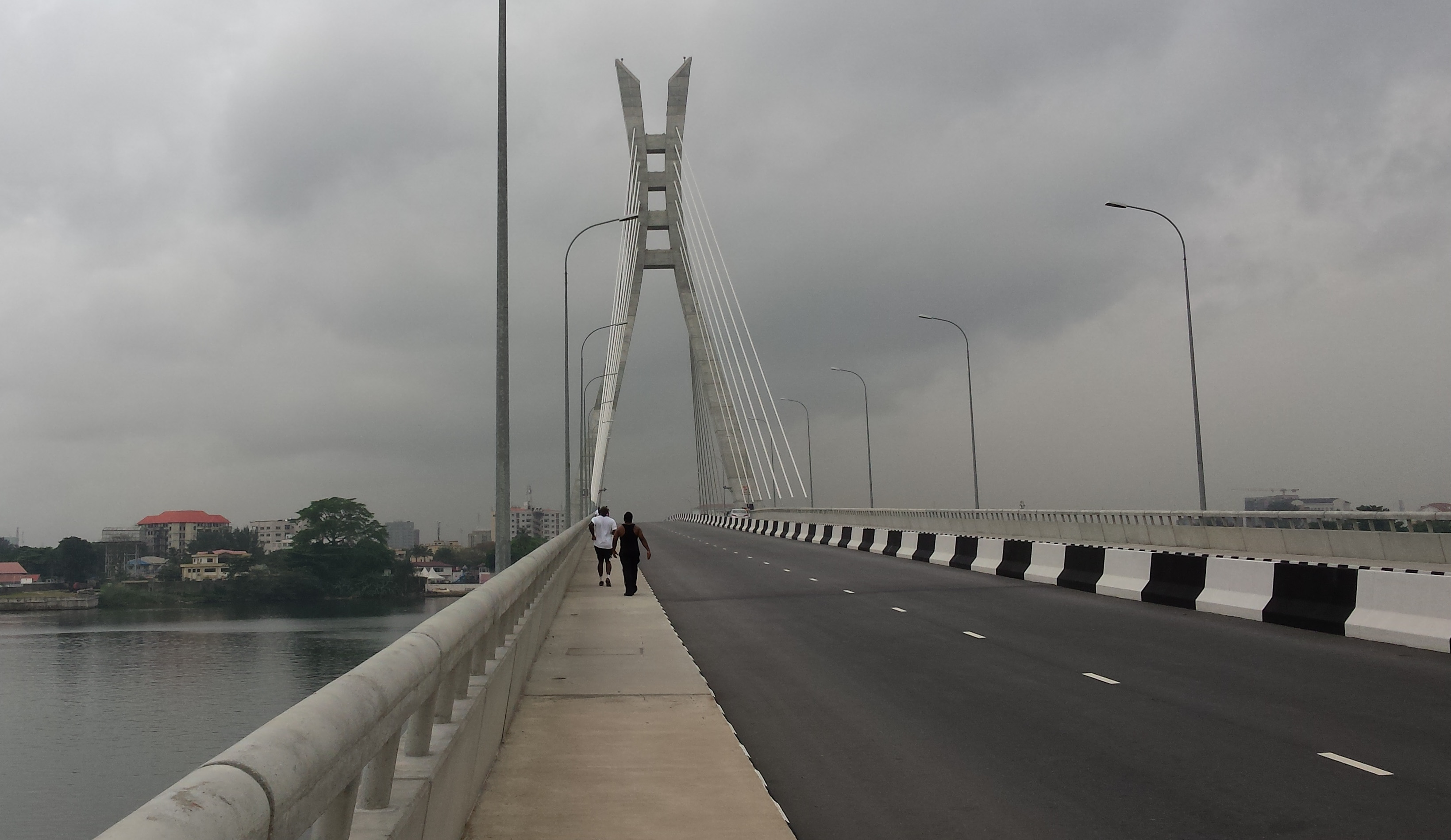 The cable-stayed bridge linking Lekki and Ikoyi in Lagos, Nigeria.